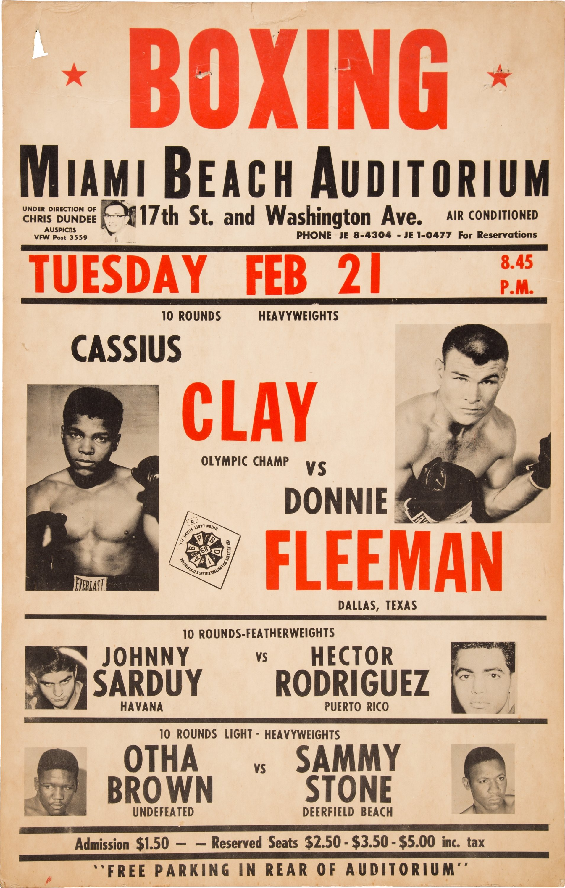 1961 Cassius Clay (Muhammad Ali) vs. Donnie Fleeman On-Site Poster, for Ali's fifth pro bout.